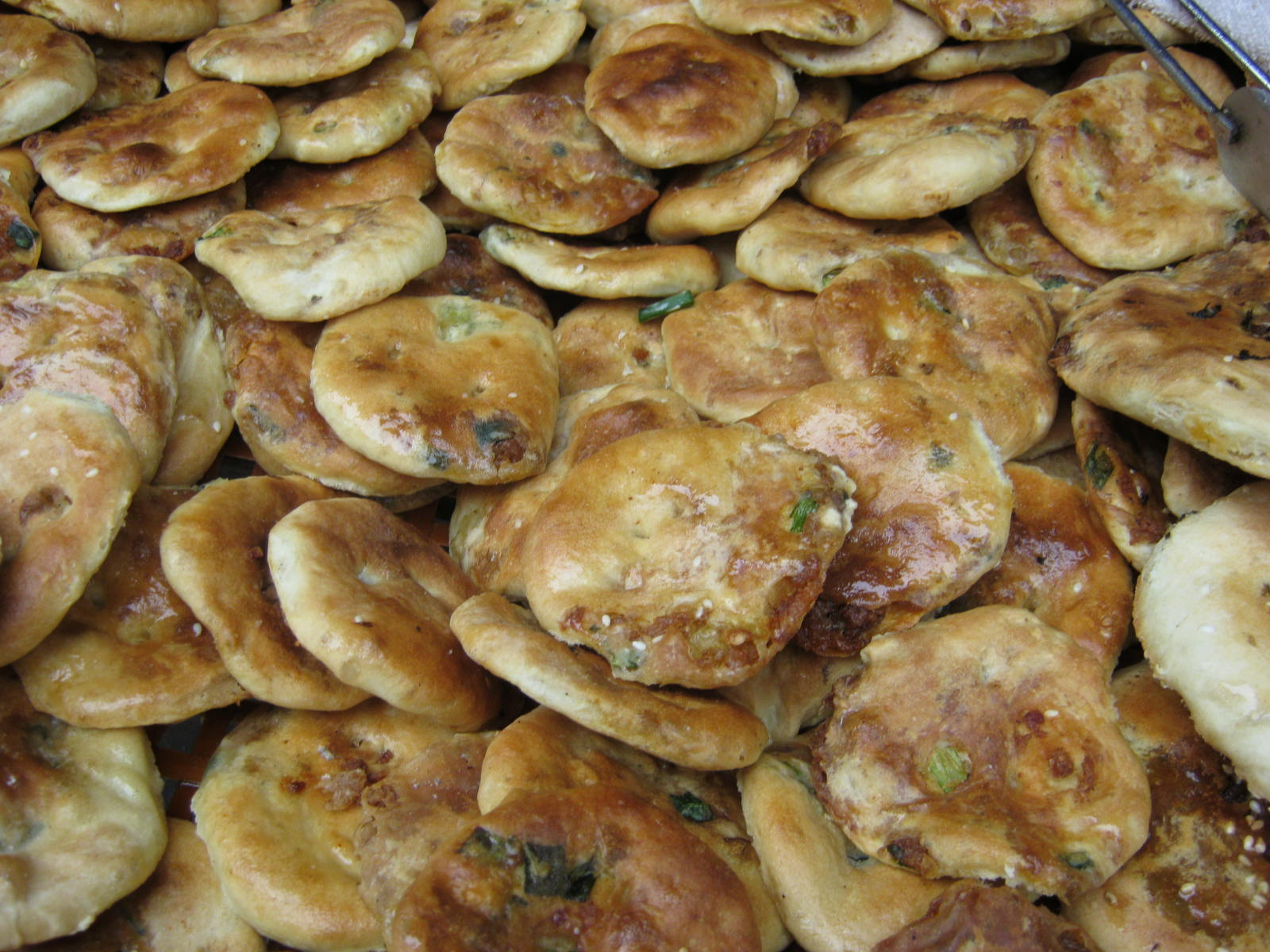 Guang Bing (房村光饼) sold on the streets of Fujian cities. Price 1rmb for 3.